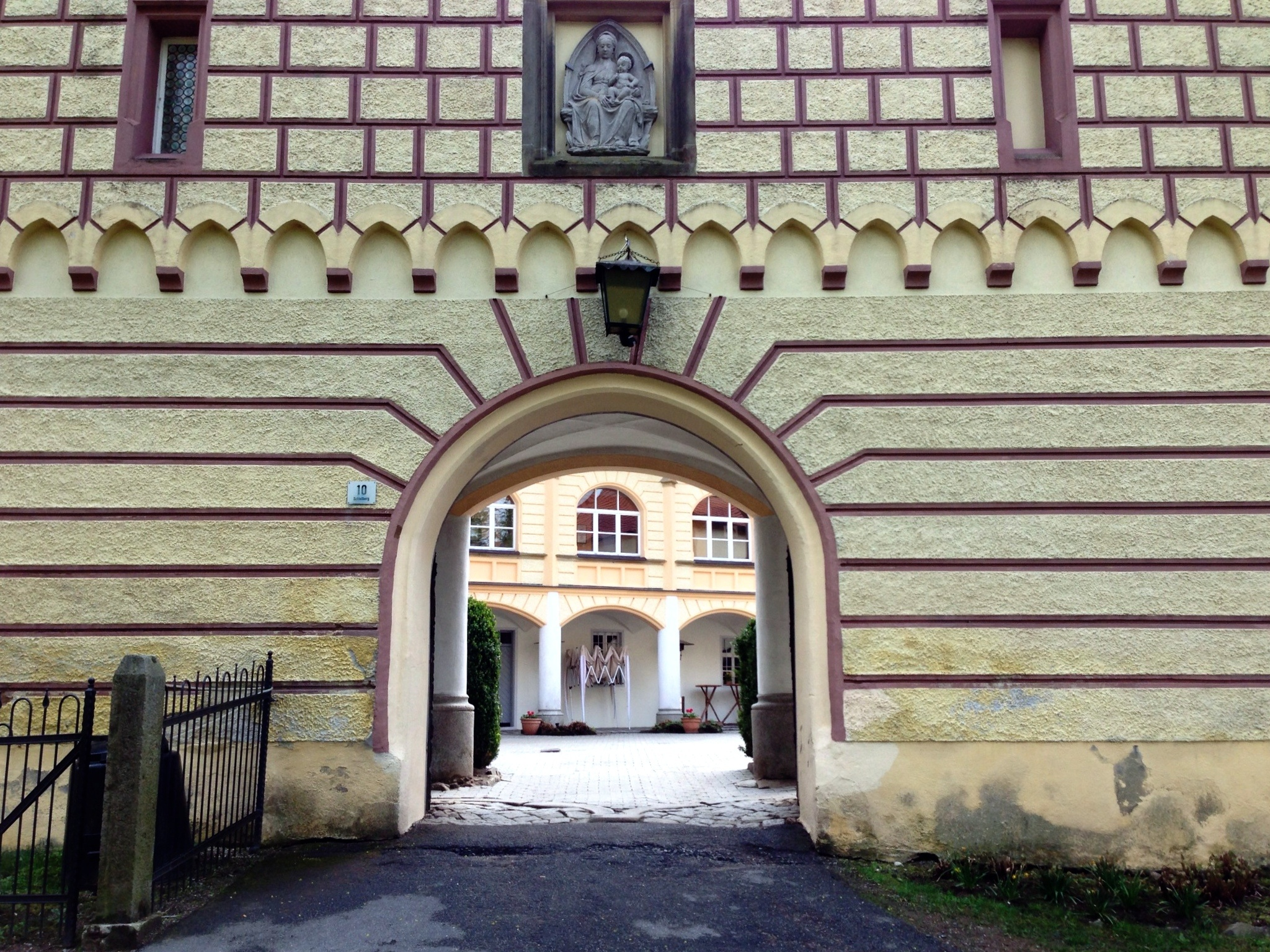 Guteneck Castle, Germany